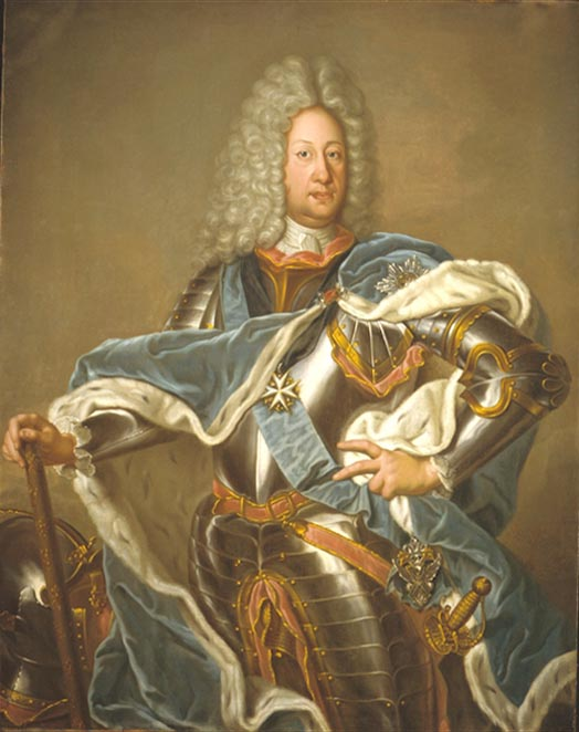 Portrait of Count Boris Sheremetyevlabel QS:Len,"Portrait of Count Boris Sheremetyev"label QS:Lru,"Портрет фельдмаршала графа Б.П. Шереметева"